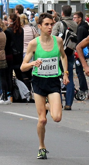 2014 Asics Grand 10 Berlin